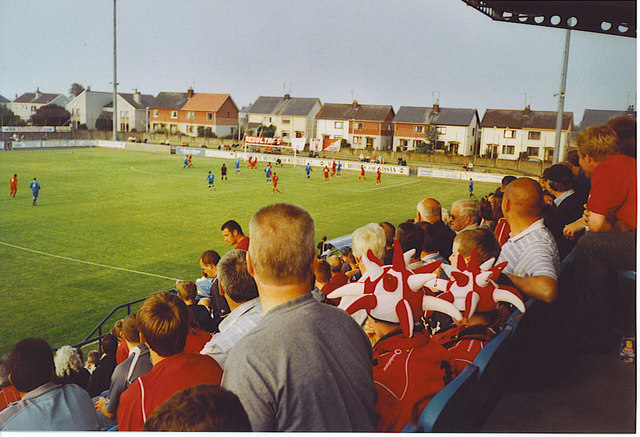 Links Park. Montrose are entertaining Aberdeen in a pre-season friendly (0-3).